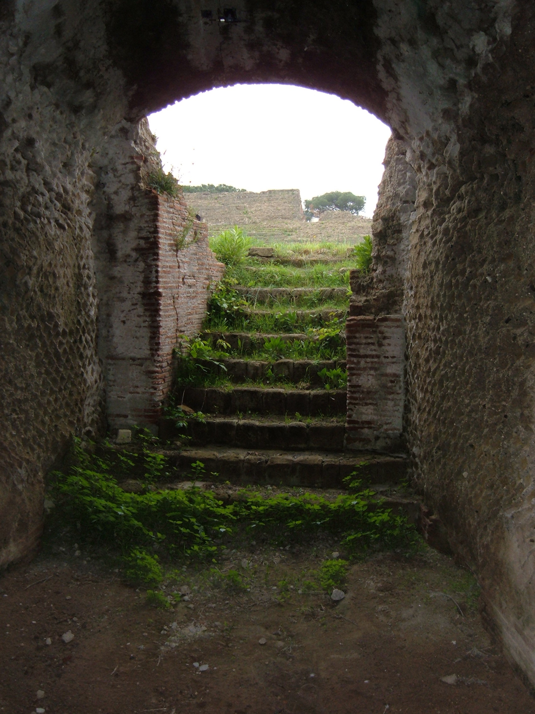 Flavian Amphitheatre, Pozzuoli, near Naples, View from the holding pens. April 2005.